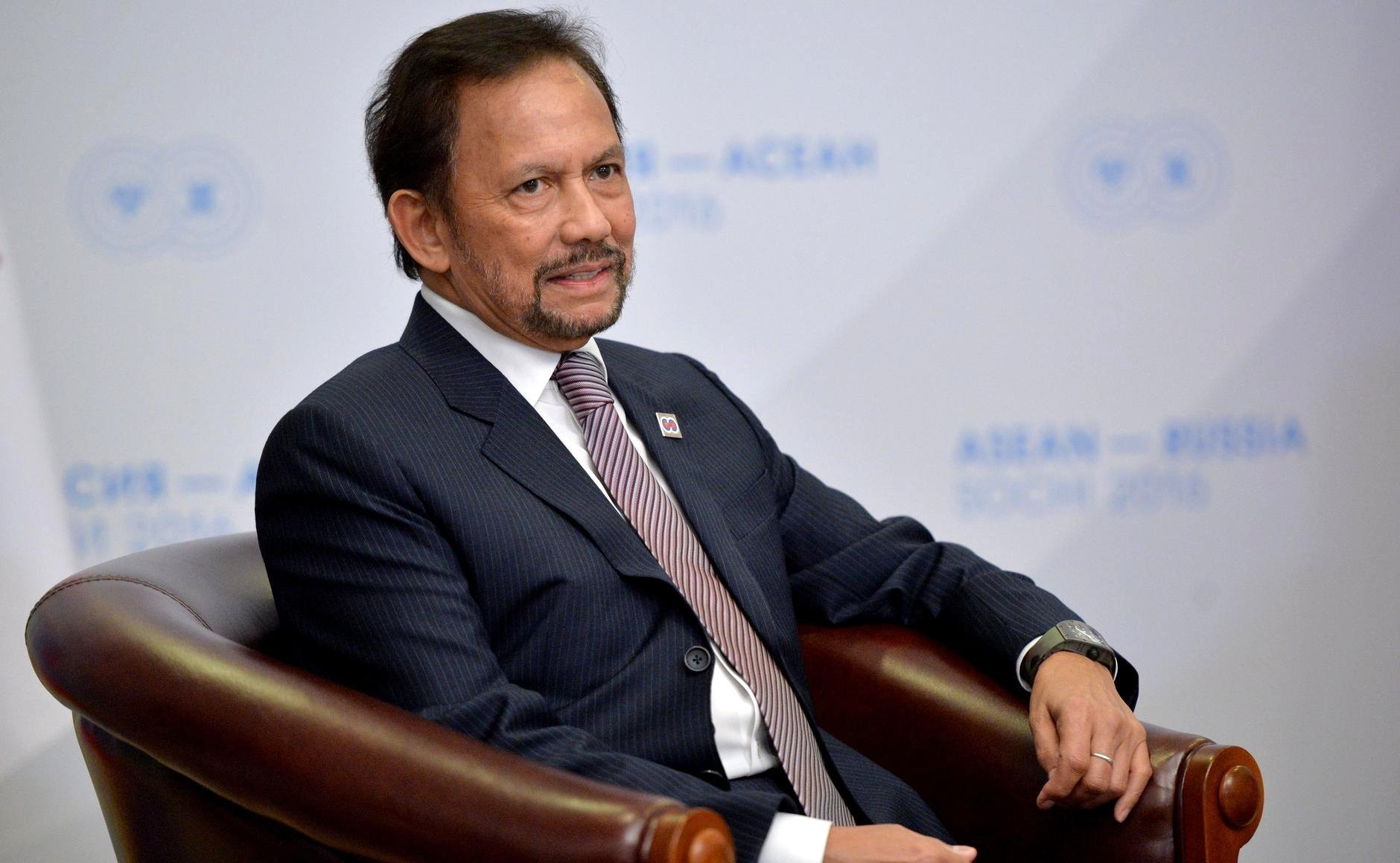 Vladimir Putin met with the Sultan of Brunei-Darussalam Hassanal Bolkiah on the sidelines of the Russia-ASEAN summit.